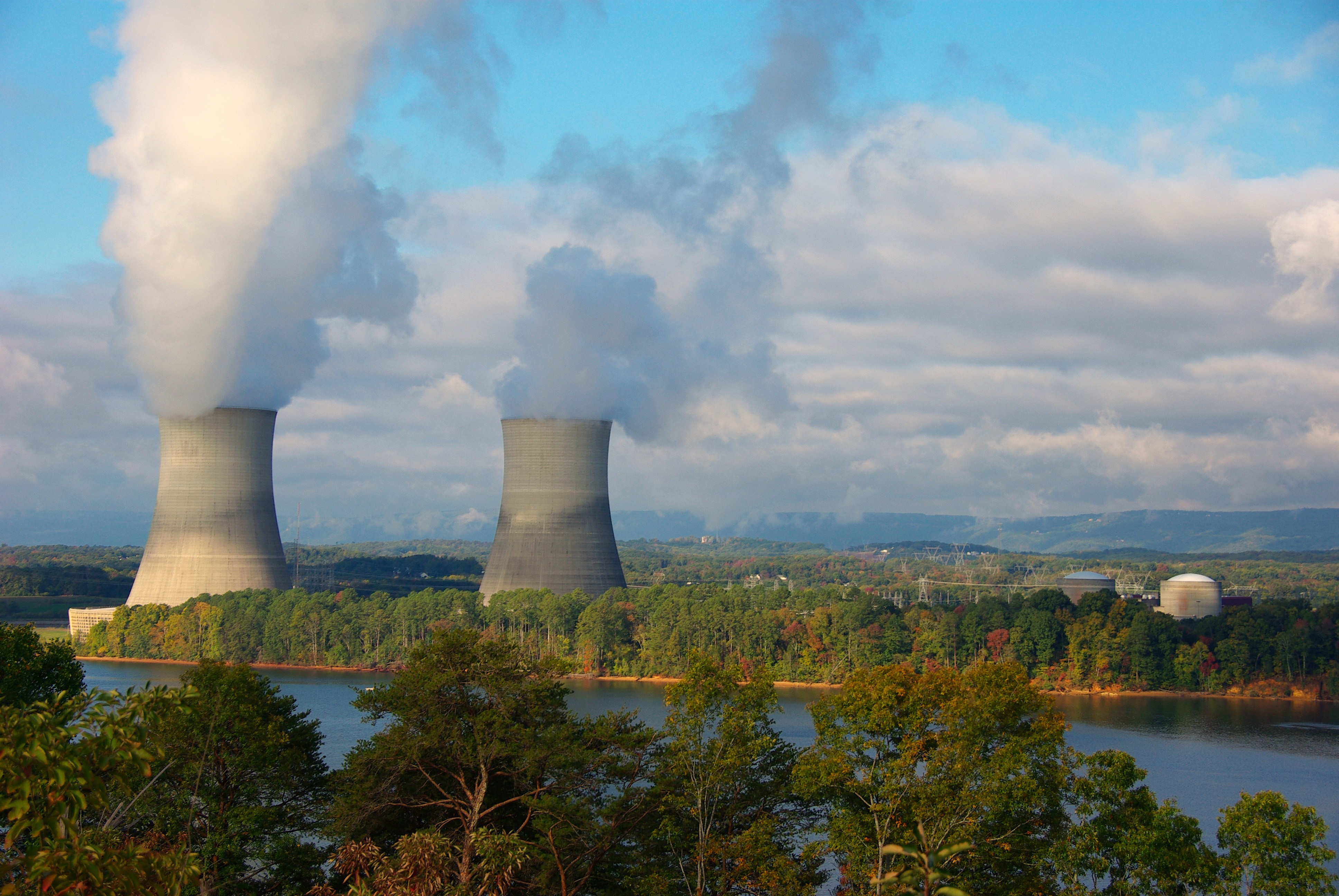 Sequoyah Nuclear Power Plant near Chattanooga, Tennessee